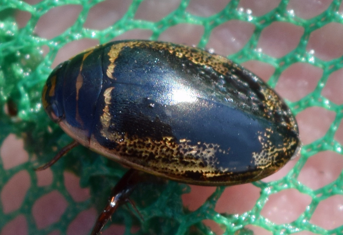 An adult Thermonectus basillaris at the University of Mississippi Field Station.